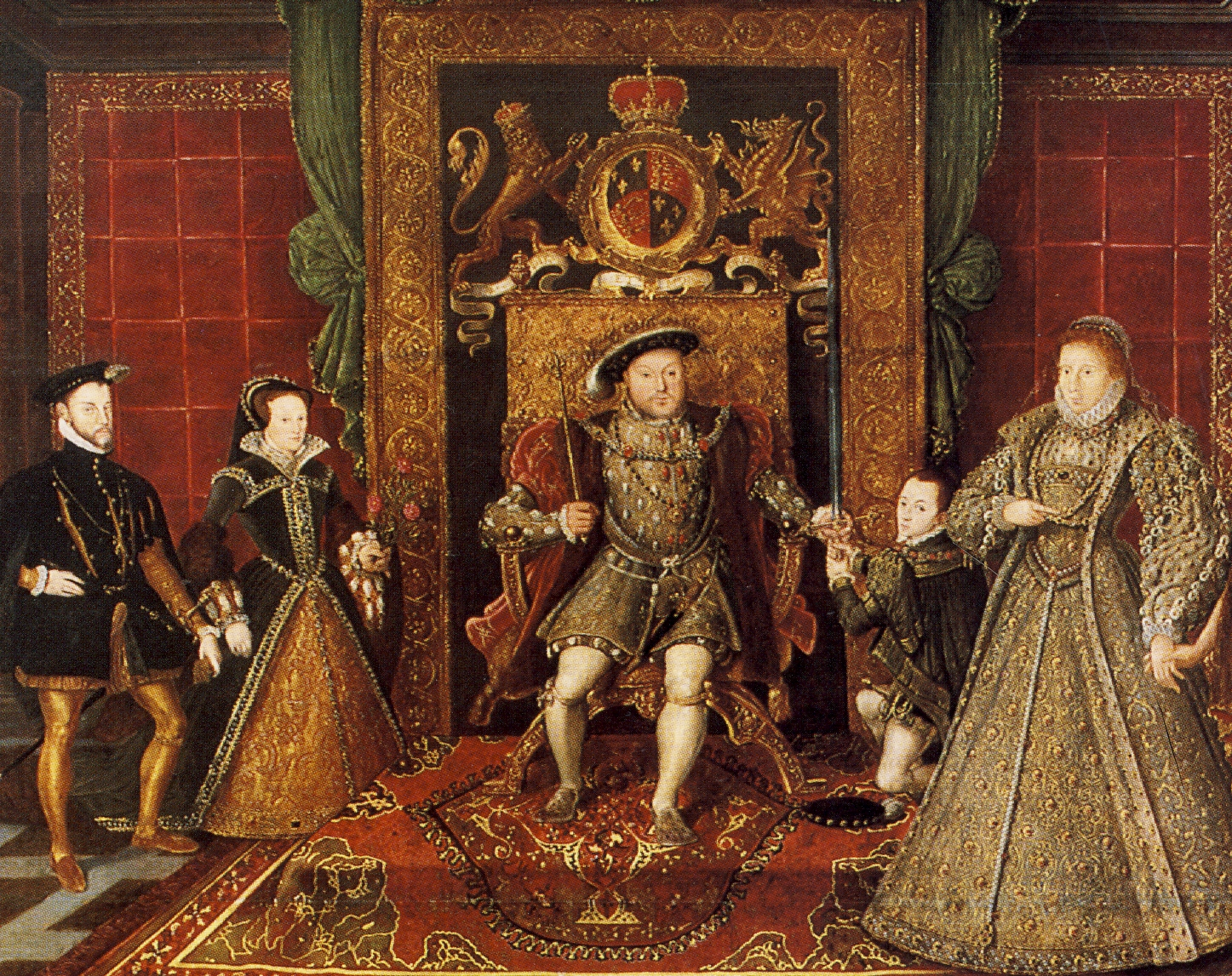 From Left to Right: Mary I & Philip II of Spain (husband and co-regent), Henry VIII, Edward VI, and Elizabeth I